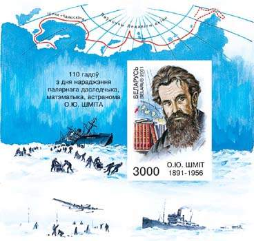 Stamp of Belarus